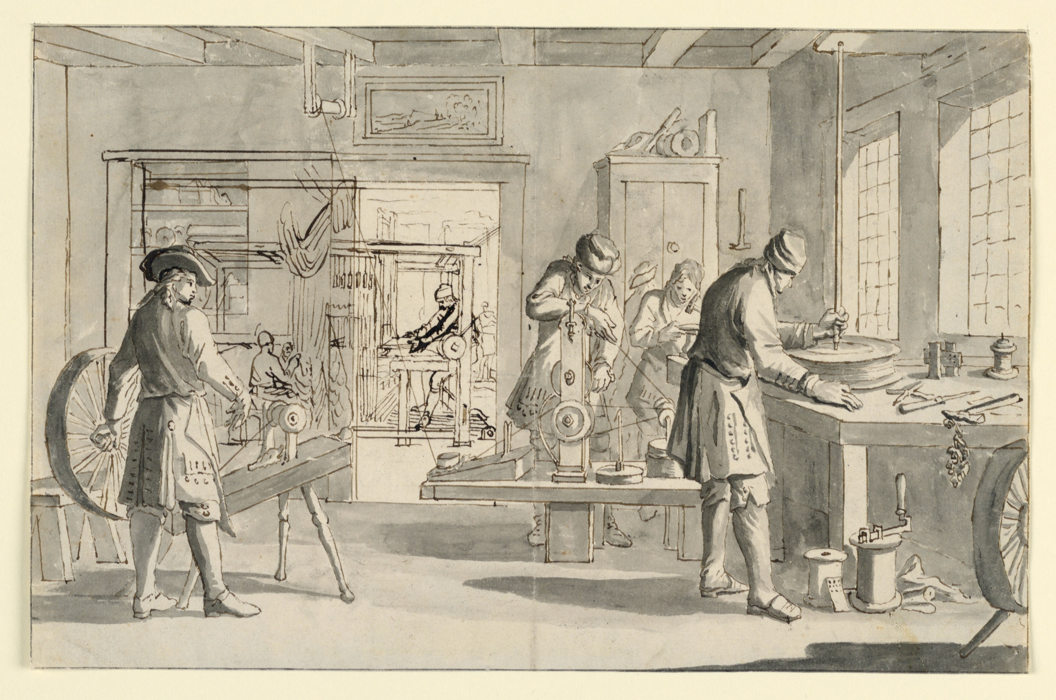 Three workmen move the wheels of engines manufacturing threads. A fourth man hammers something on a small anvil. A fifth is shown from the rear. View through the door opening of a man at a loom and another carrying something in a rear room. At left of door originally suggested was a wall and niche with three shelves. Later, a broadening of the door opening and of the view into the rear suggested. Two persons work on a curtain. The niche is to be moved to the rear wall.